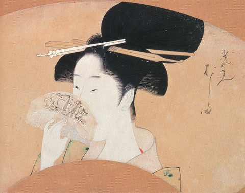 Ukiyo-e painting of a woman looking through a clear comb